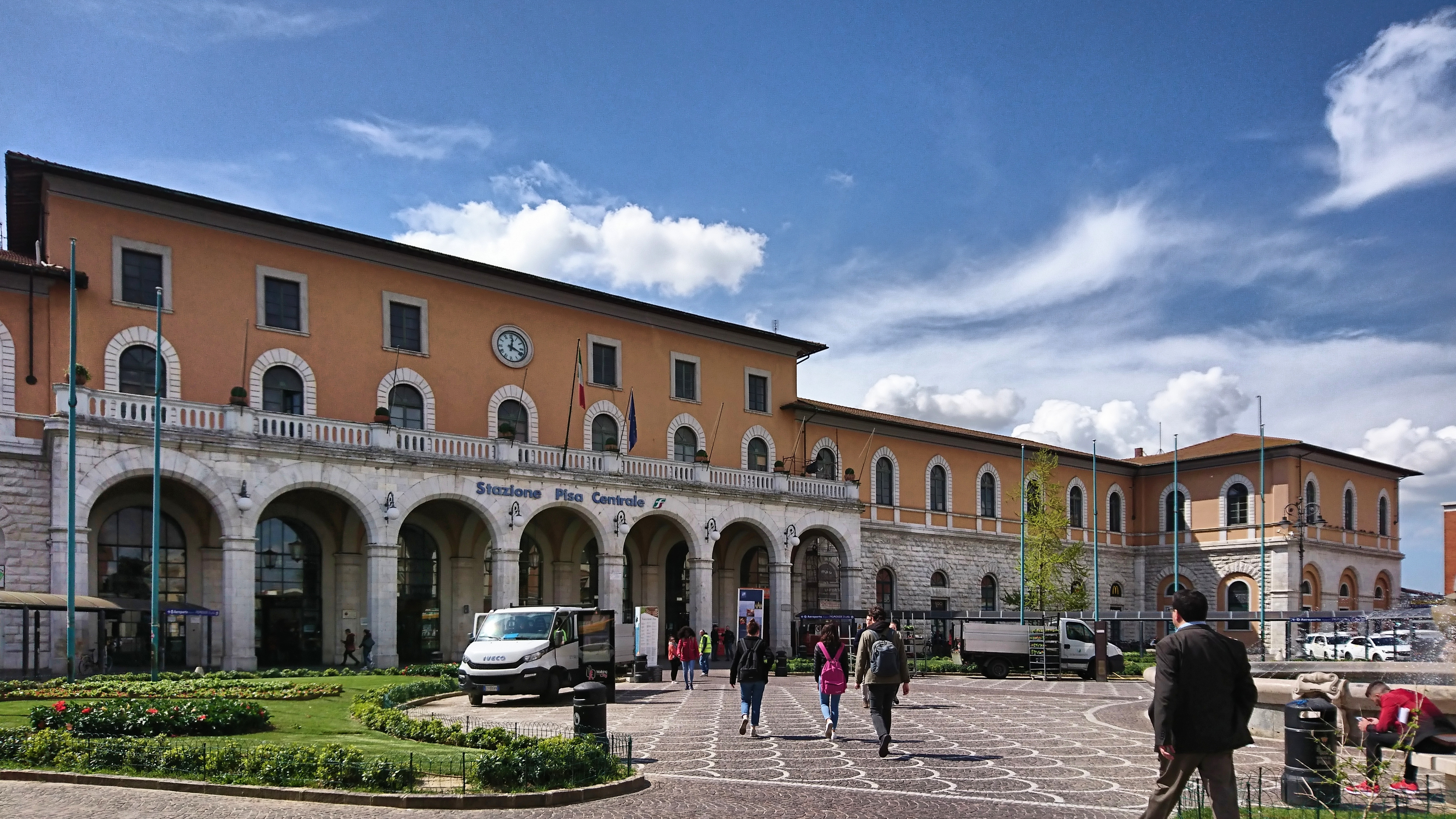 The Pisa Centrale train station in Tuscany, Italy.